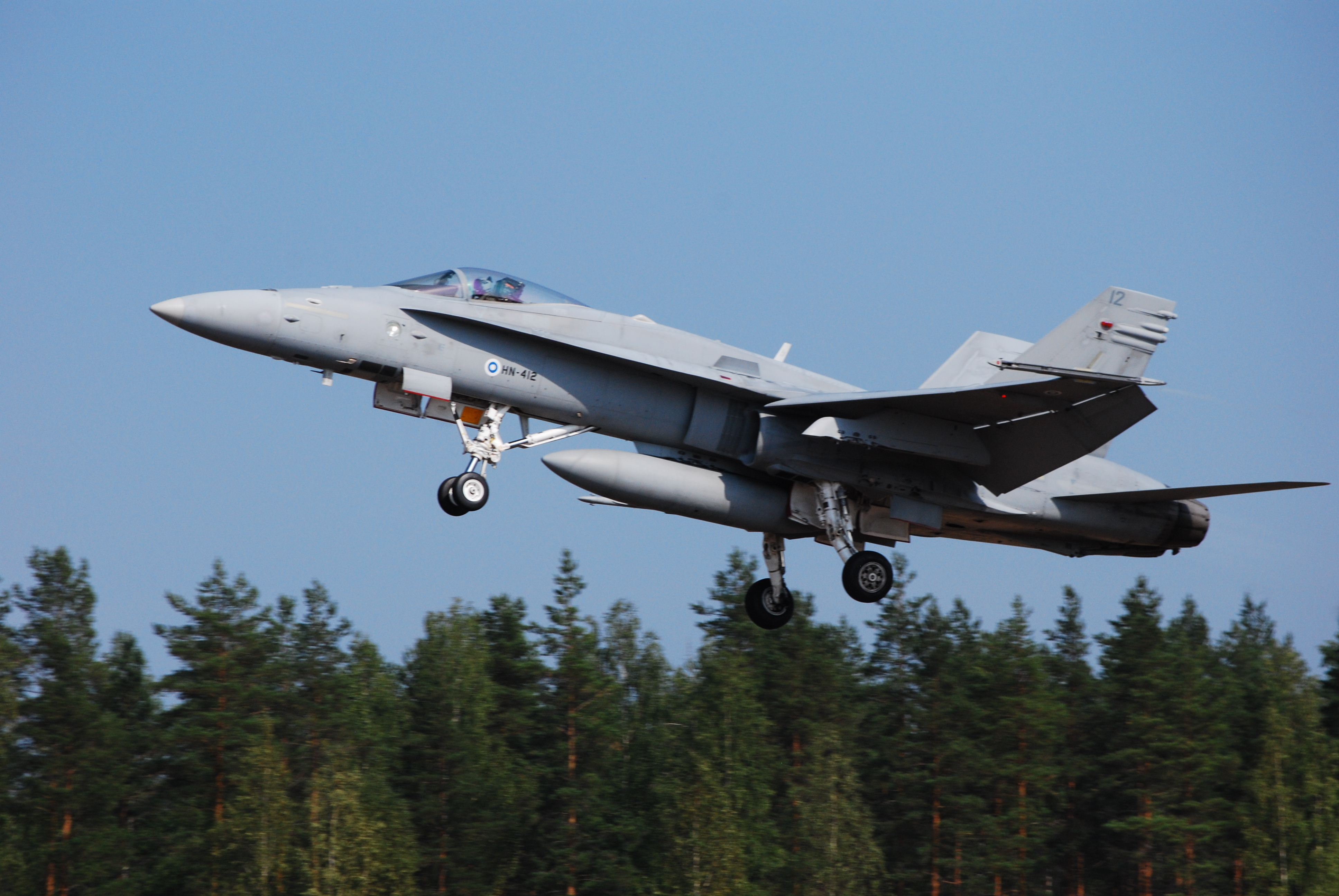 Finnish F-18 Hornet creeps past, starting to retract landing gear, immediately before slamming throttles forward and roaring away.